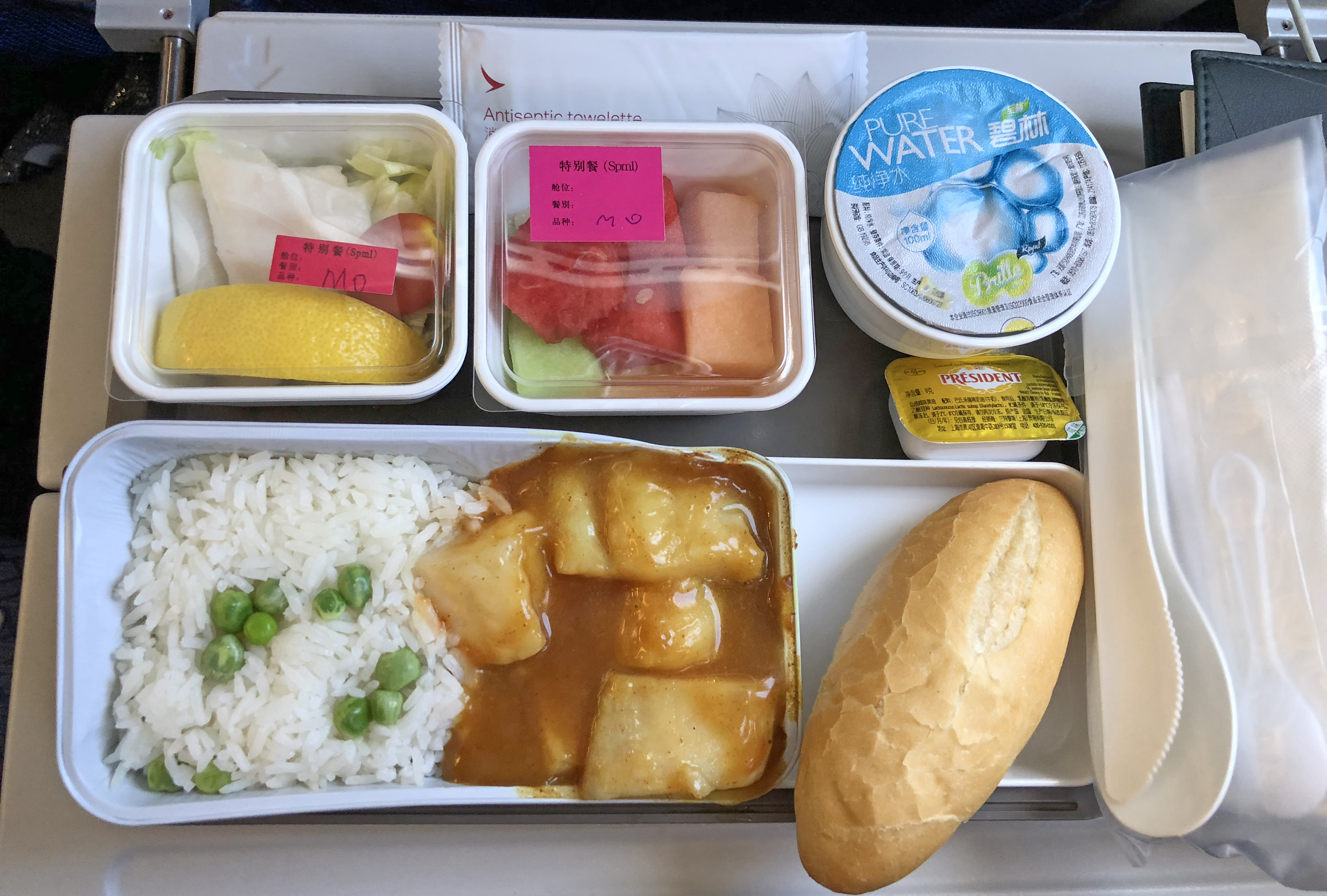 According to Cathay Pacific, HNML is "a non-vegetarian, Indian-style meal prepared according to Hindu customs that contains no beef, veal or pork, but with lamb, domestic fowl, other meats, fish and milk products". This example contains curry fish and rice, which turned out to have an extraordinary taste. But the tag on cold dish containers said "MO", which probably stands for Moslem Meal. After all, which special meal has a more complicated preparation than Kosher meal?